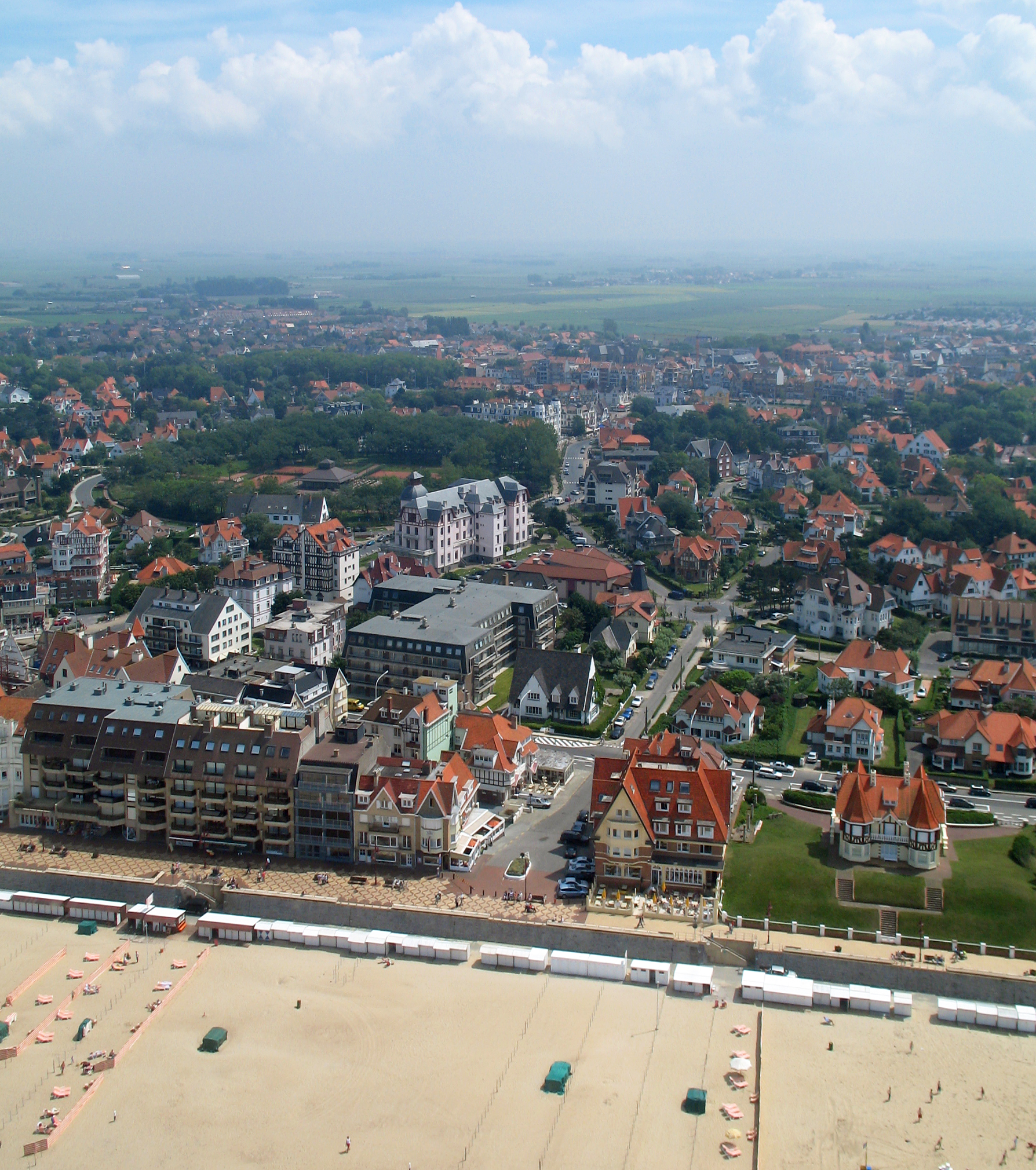 De Haan (West Flanders, Belgium)